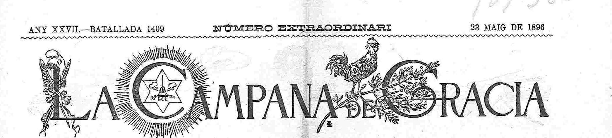 Catalan newspaper "La Campana de Gràcia" 1896